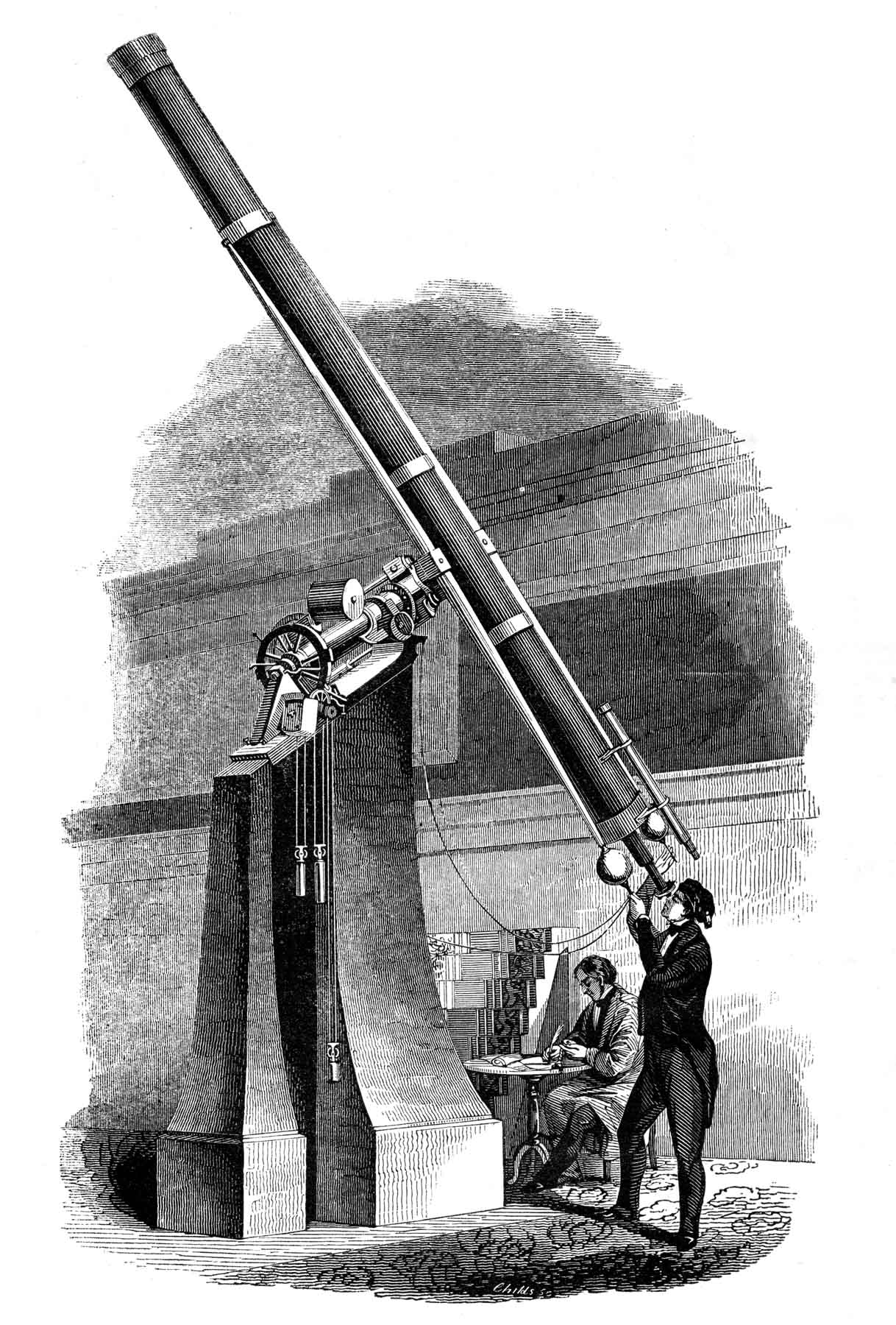 Engraving from "Smith's Illustrated Astronomy" from 1848 of the Cincinnati Observatorys 11 inch "Merz and Mahler" refracting telescope installed in 1843. It is described in the 1848 text as "The 2nd Telescope in size in the United States at the Cincinnati Observatory." It is believed to be the oldest professional telescope still in use in the Western Hemisphere[1]. Cover and inside: "Smith's Illustrated Astronomy, Designed for the use of the Public Or Common Schools in the United States." By ASA Smith Second Edition Published by Candy & Burgess 60 John Street New York 1848.